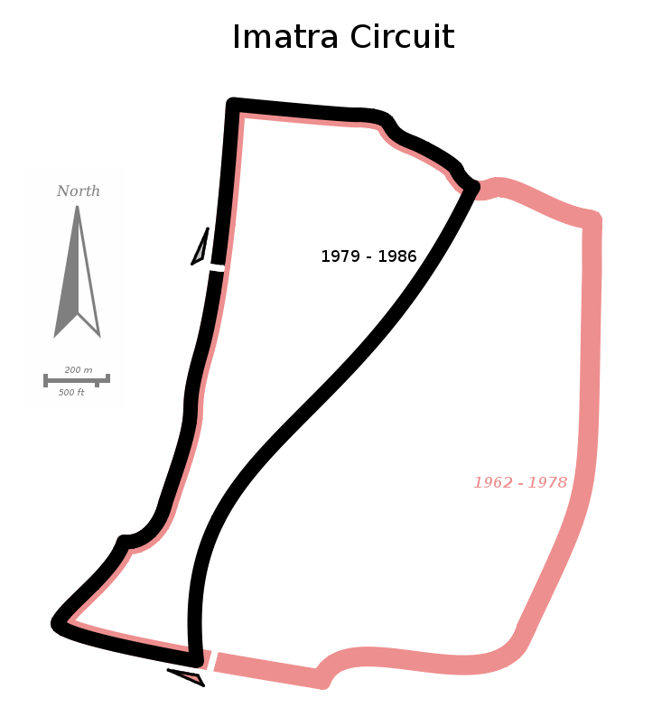 Imatra circuit map, own work